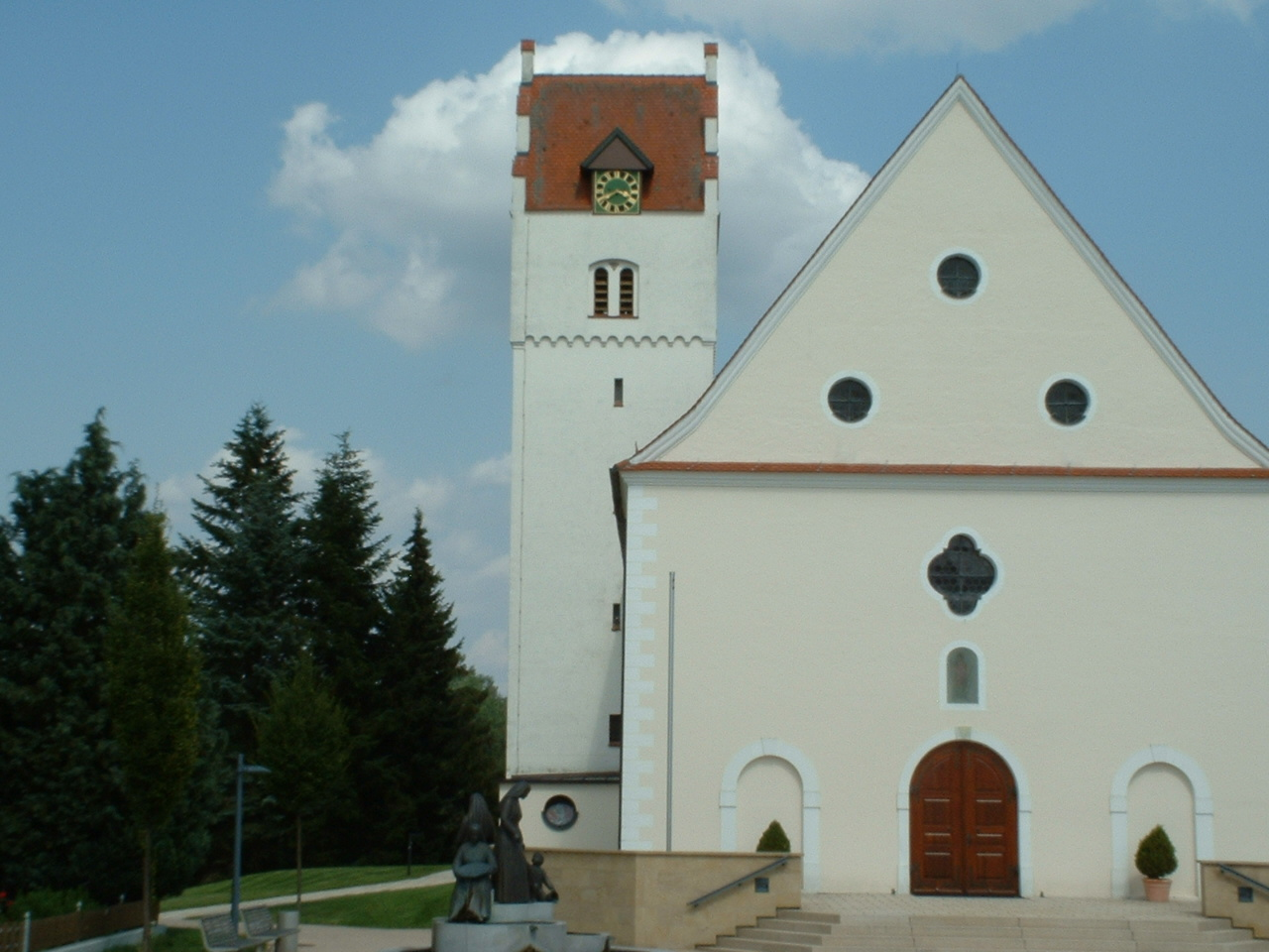 Mietingen, parish church St Lawrence